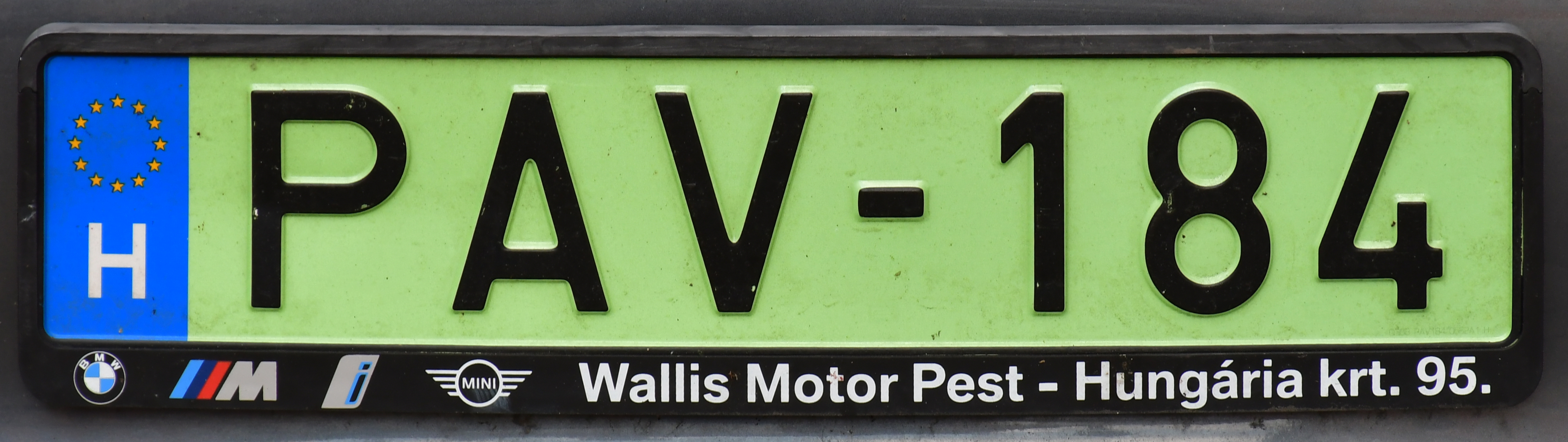 Green hungarian licence plate, for electric and hybrid cars.